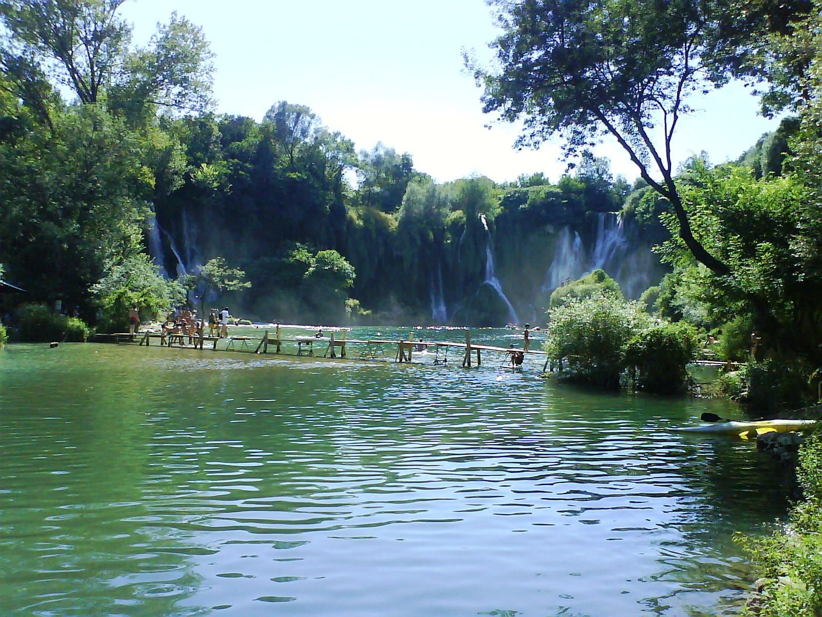 The photo captures the waterfalls Kravica